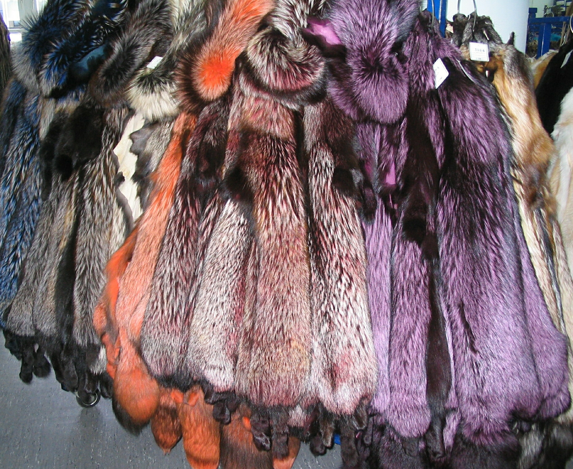 Dyed silver fox fur skins